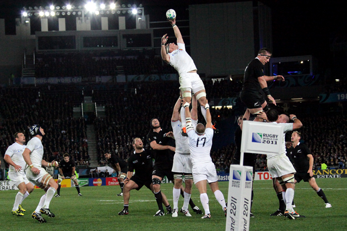 French players win a lineout against New Zealand in the 2011 Rugby World Cup final